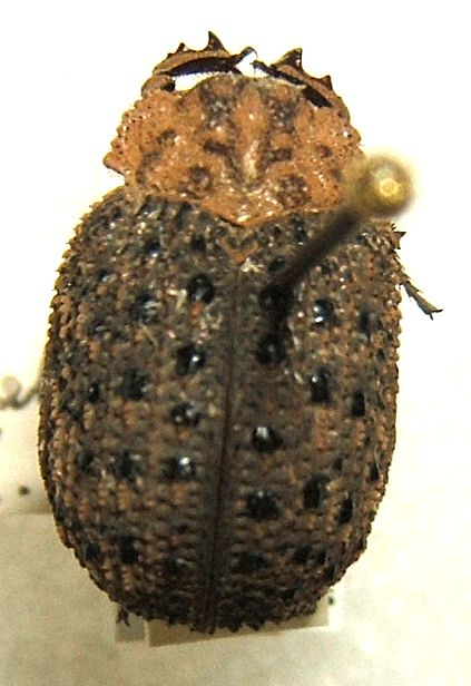 Omorgus granulatus adult taken by Shawn Hanrahan at the Texas A&M University Insect Collection in College Station, Texas. Cropped and slightly enhanced from Omorgus granulatus sjh.jpg.